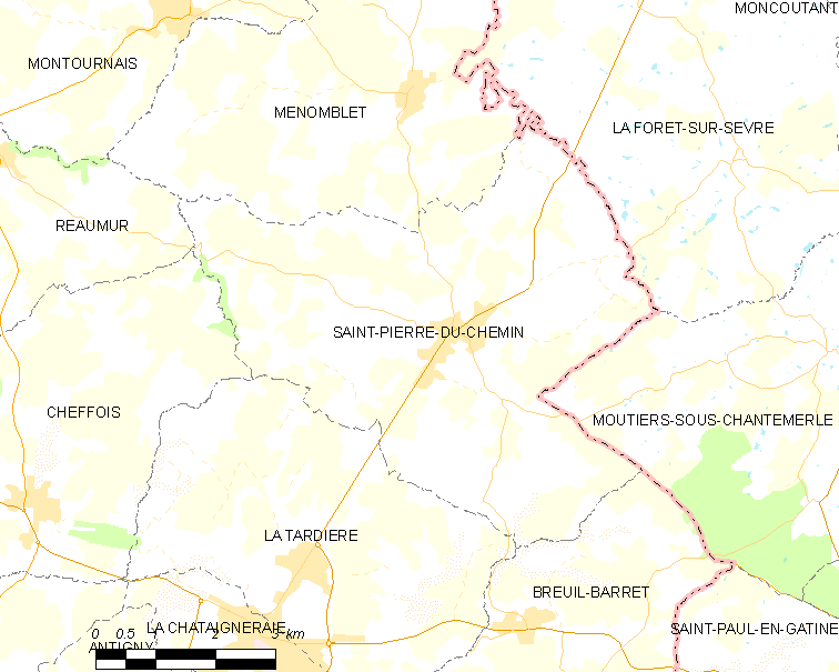 Map of French municipality Saint-Pierre-du-Chemin